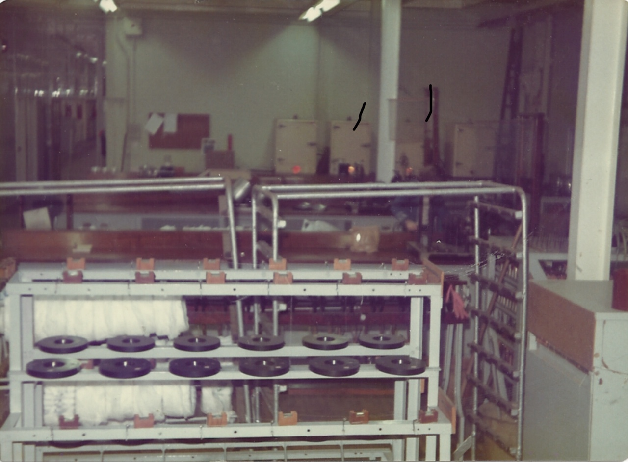 Courtaulds Red Scar Works in Preston textile testing room taken before the plant closure